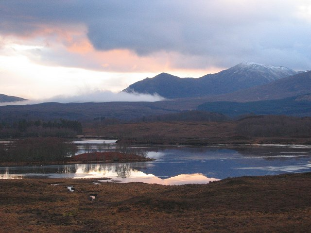 Loch Lundie. The north end of the loch with a view S to Sron a' Choire Gairbh.